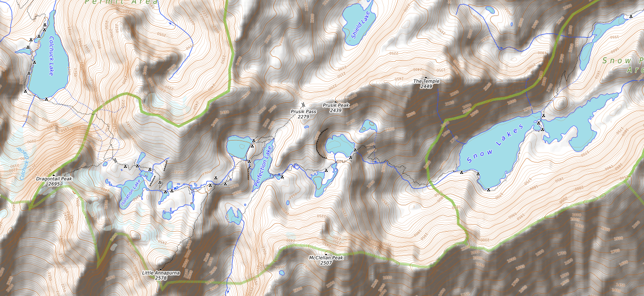 Topo map of The Enchantments in the Alpine Lakes Wilderness, Washington